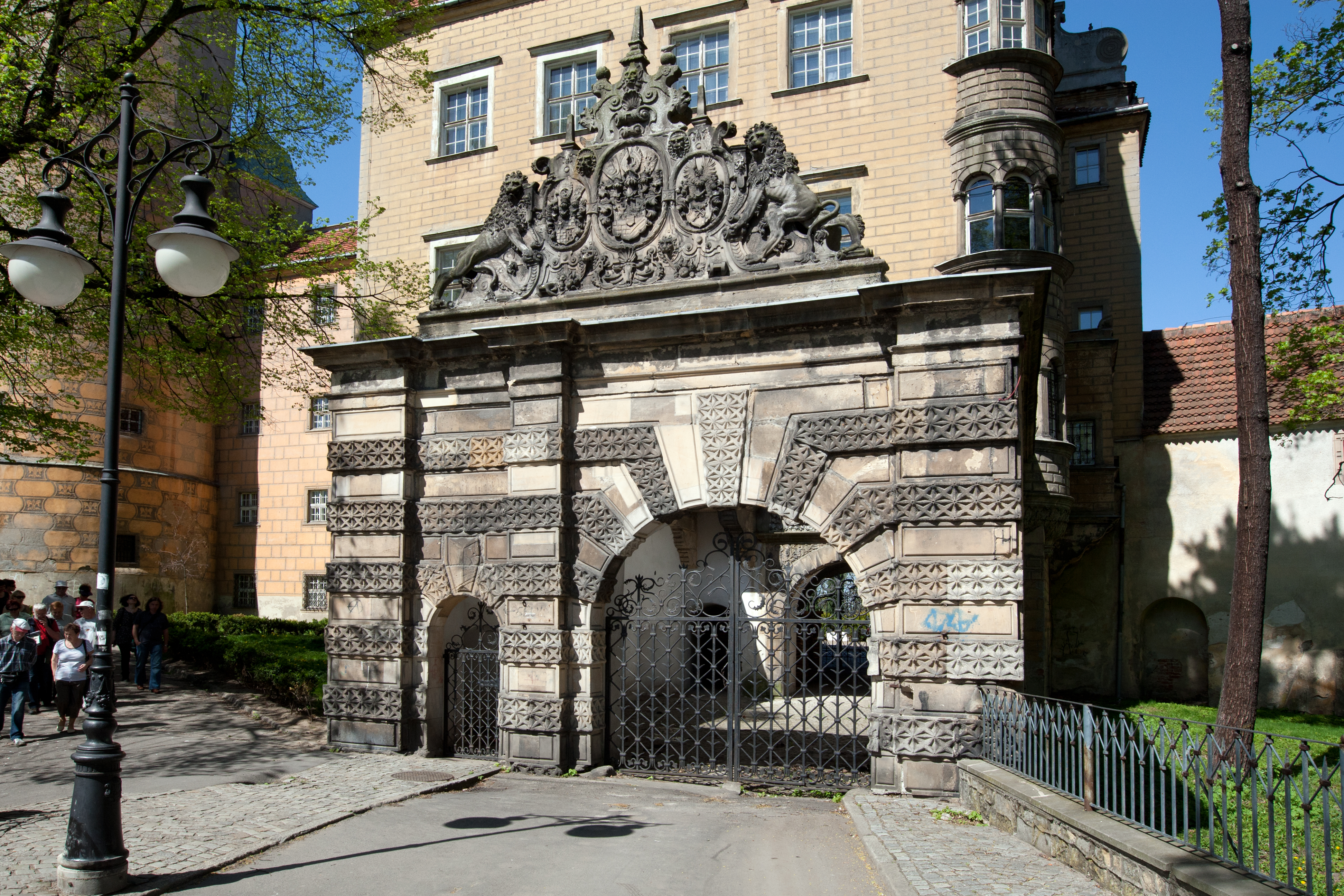 Oleśnica castle